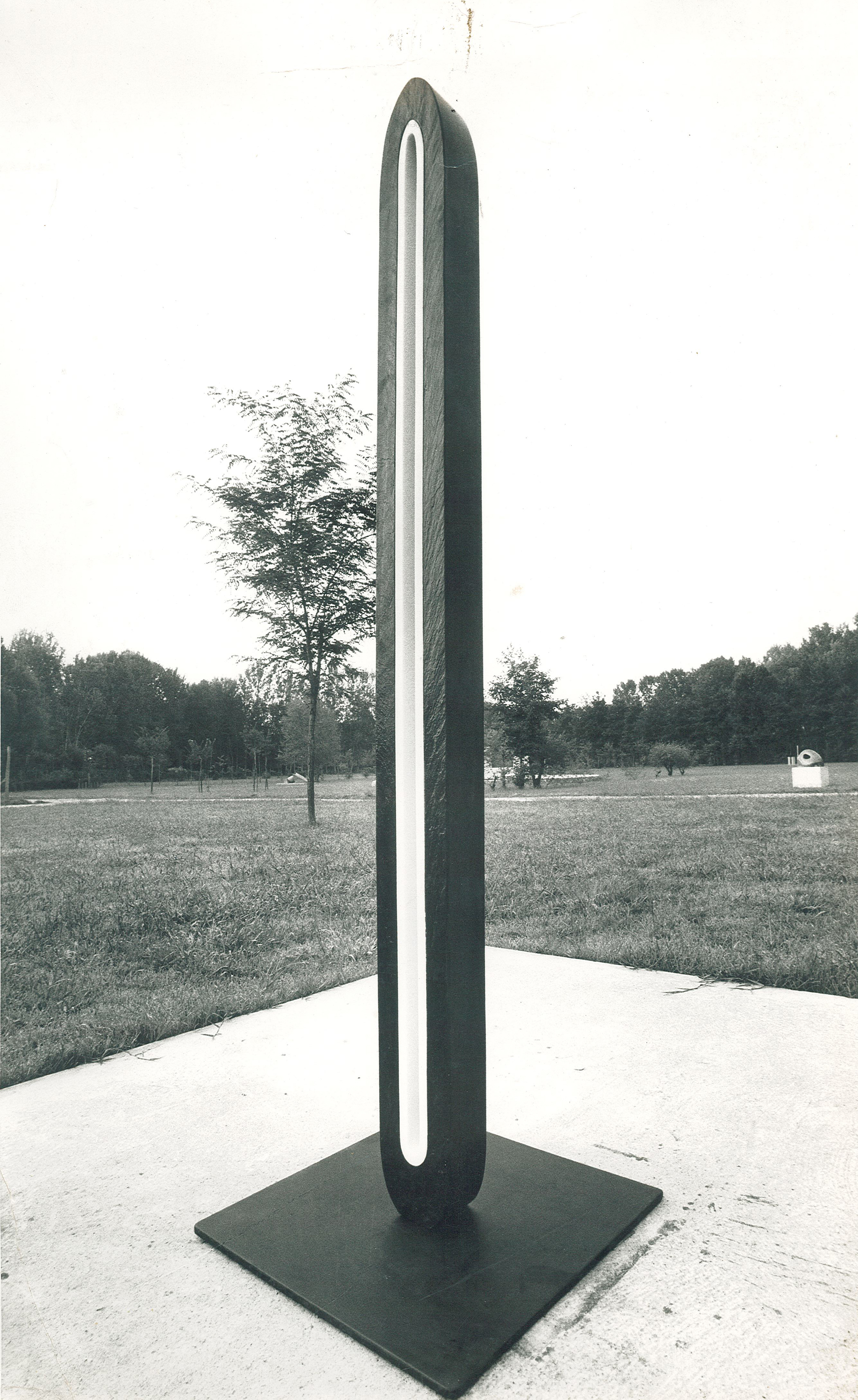 Stele for a Prayer - Felmstrom Granite and Carrara